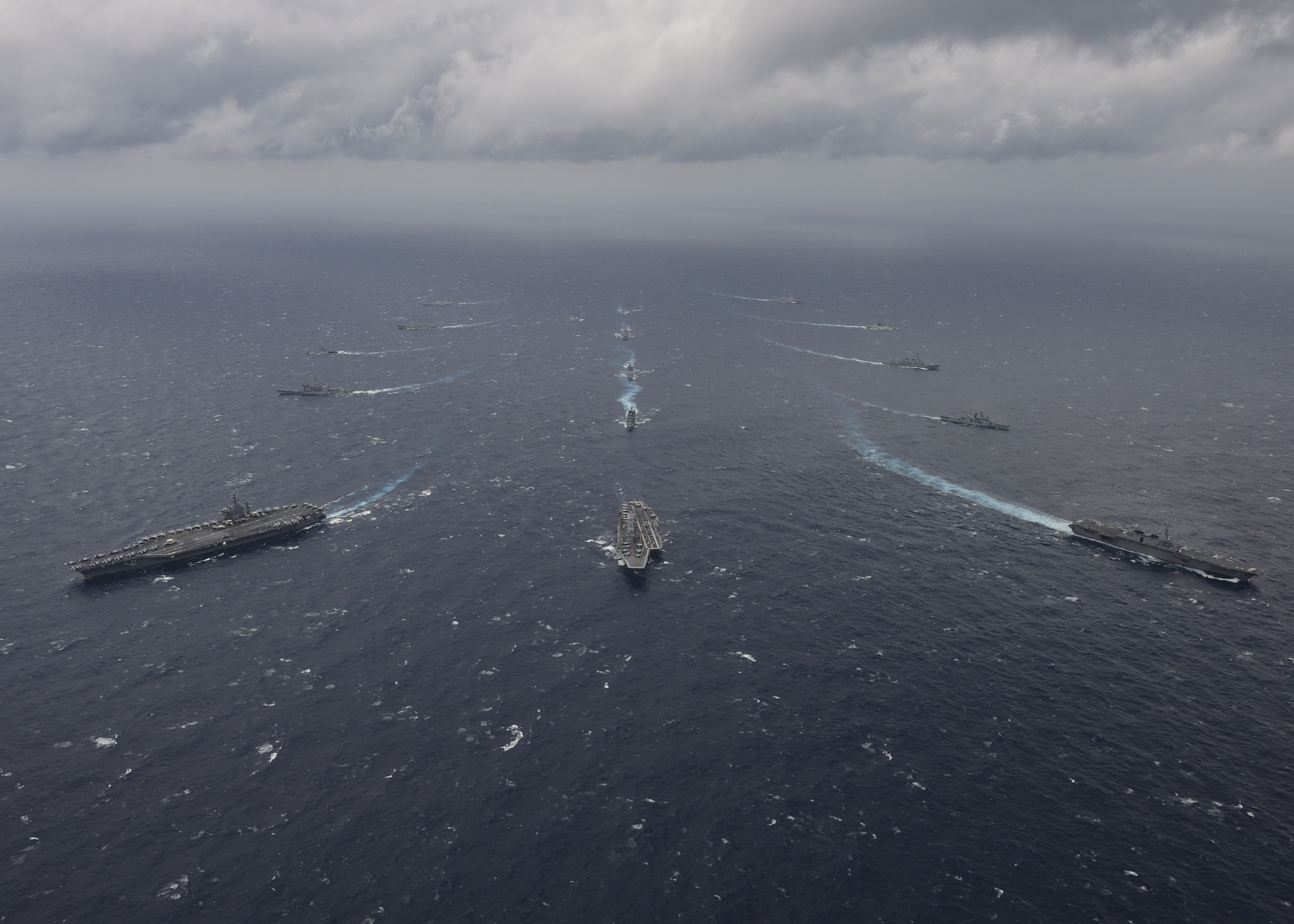 170717-N-JH929-938 BAY OF BENGAL (July 17, 2017) Ships from the Indian navy, Japan Maritime Self-Defense Force (JMSDF) and the U.S. Navy sail in formation in the Bay of Bengal during exercise Malabar 2017. Leading the formation are U.S Navy aircraft carrier USS Nimitz (left), Indian Navy aircraft carrier INS Vikramaditya (middle) and a Japan Maritime Self-Defense Force (JMSDF) ship (right). Malabar 2017 is the latest in a continuing series of exercises between the Indian navy, JMSDF and U.S. Navy that has grown in scope and complexity over the years to address the variety of shared threats to maritime security in the Indo-Asia-Pacific region. (U.S. Navy photo by Mass Communication Specialist 3rd Class Cole Schroeder/Released)